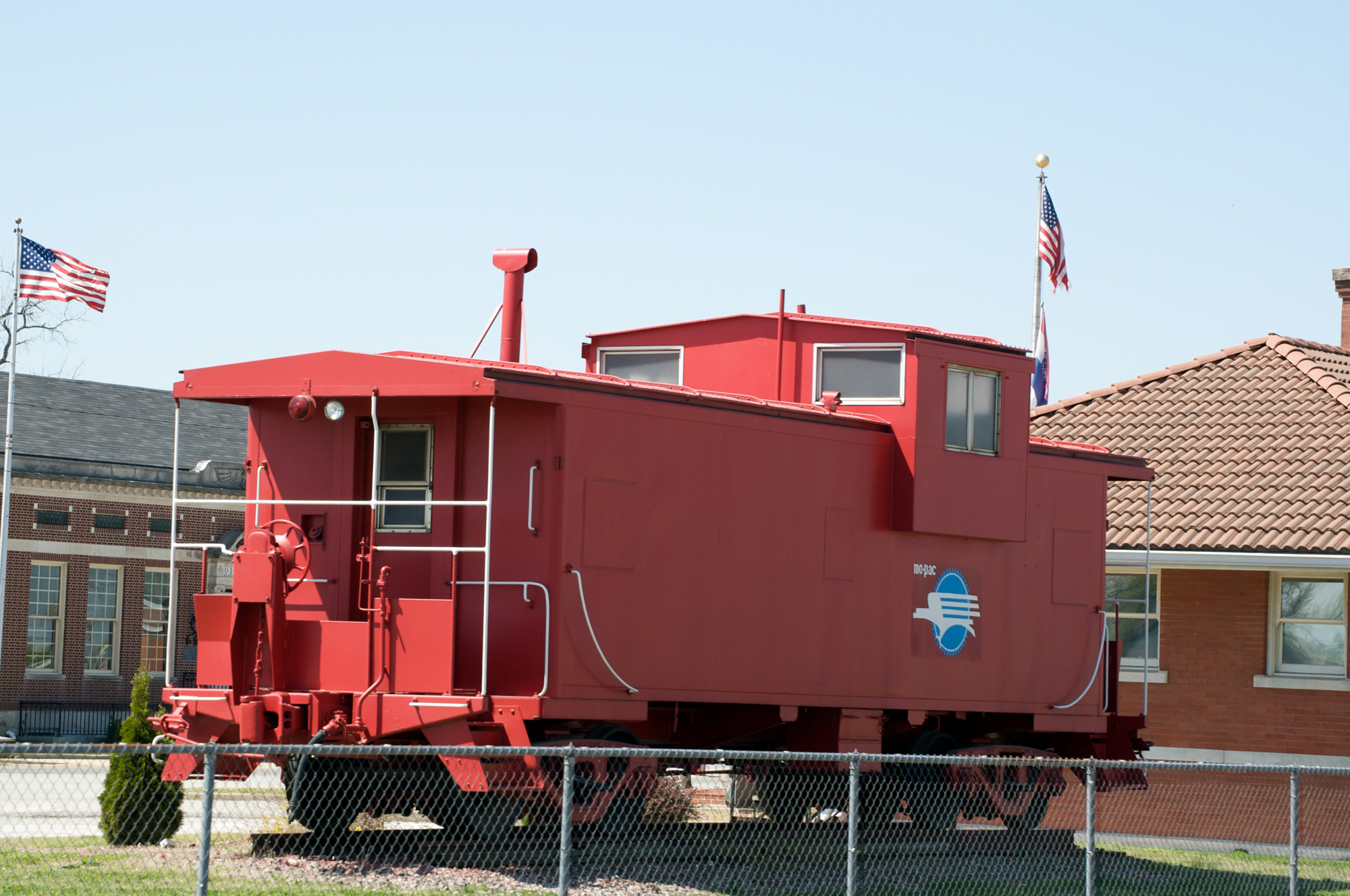 How a Missouri Pacific caboose made it to Aurora, MO off the BNSF main is beyond me. Nonetheless, it is another classic piece of railroading history.